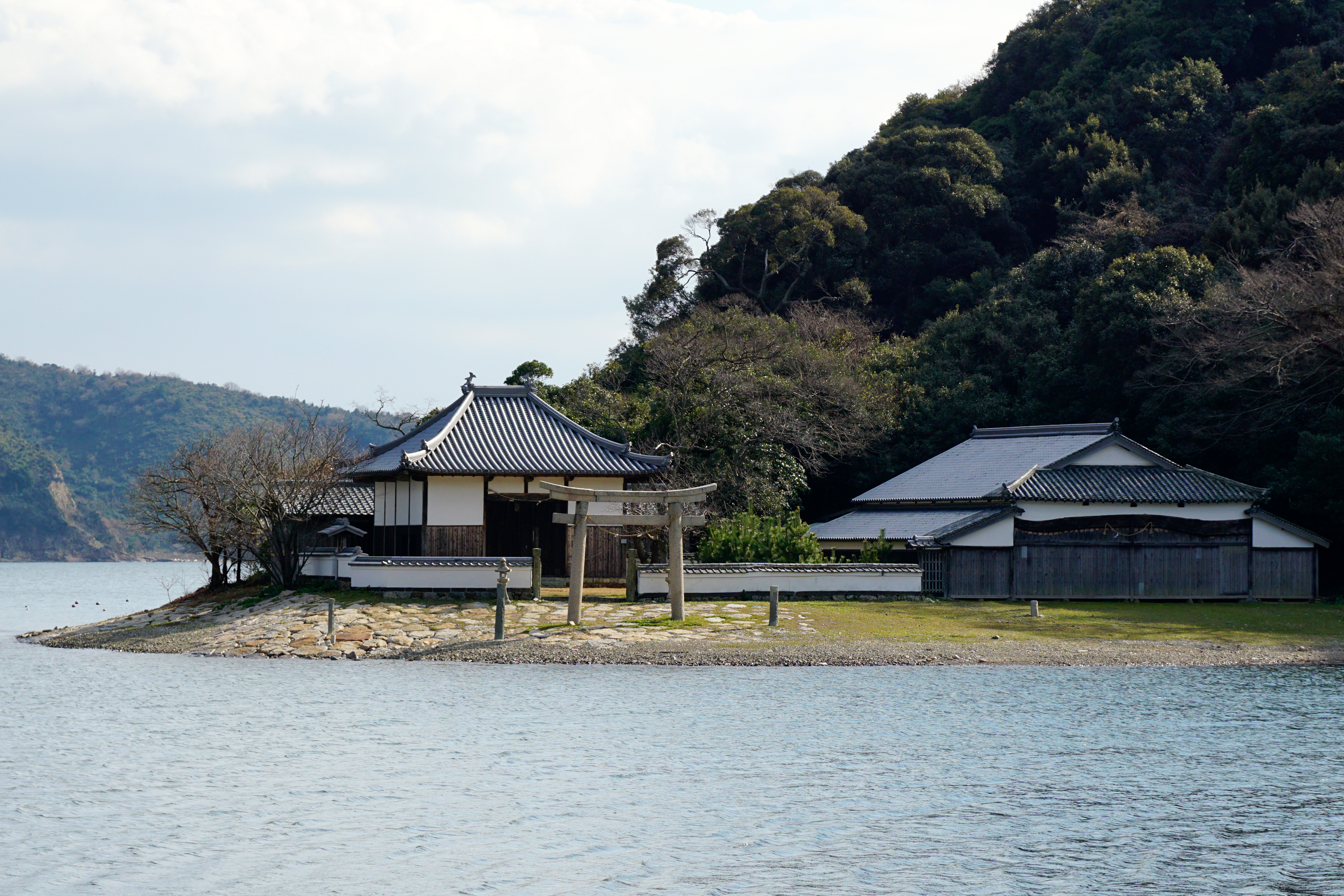 Otabisho of Osake-jinja in Ikishima in Ako, Hyogo prefecture, Japan